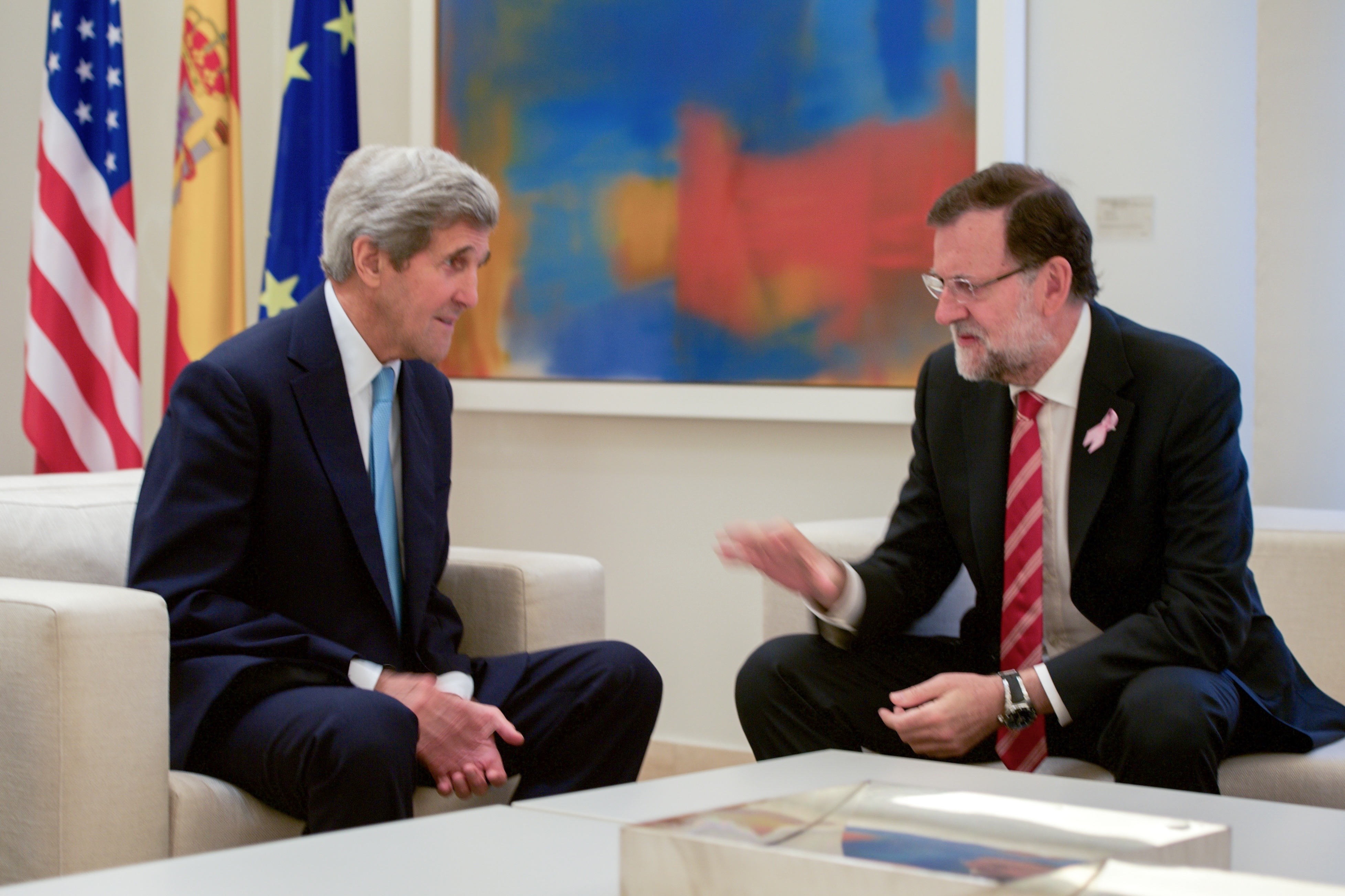 U.S. Secretary of State John Kerry meets with Spanish President Mariano Rajoy at the Moncloa Palace in Madrid, Spain, on October 19, 2015. [State Department photo/ Public Domain]